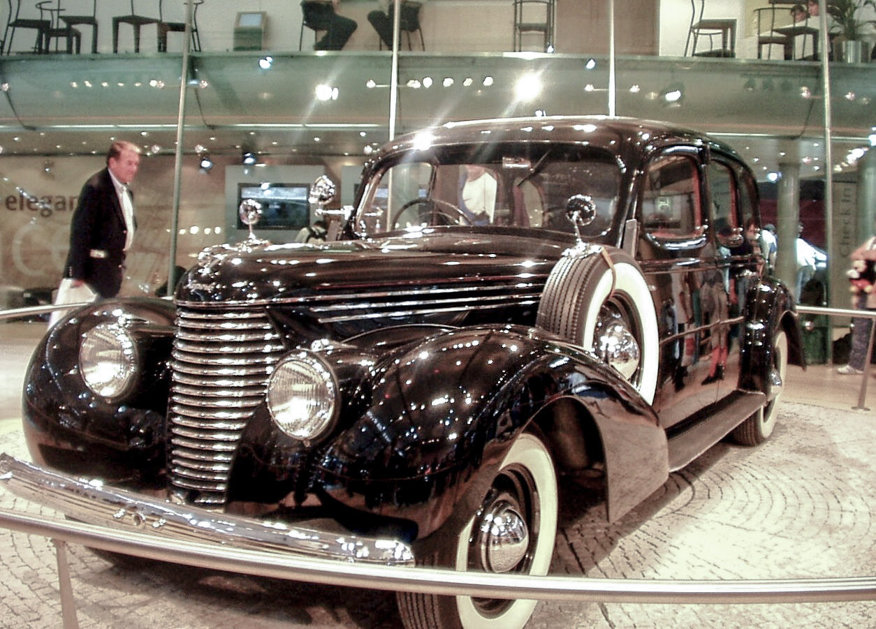 The original Skoda Superb.